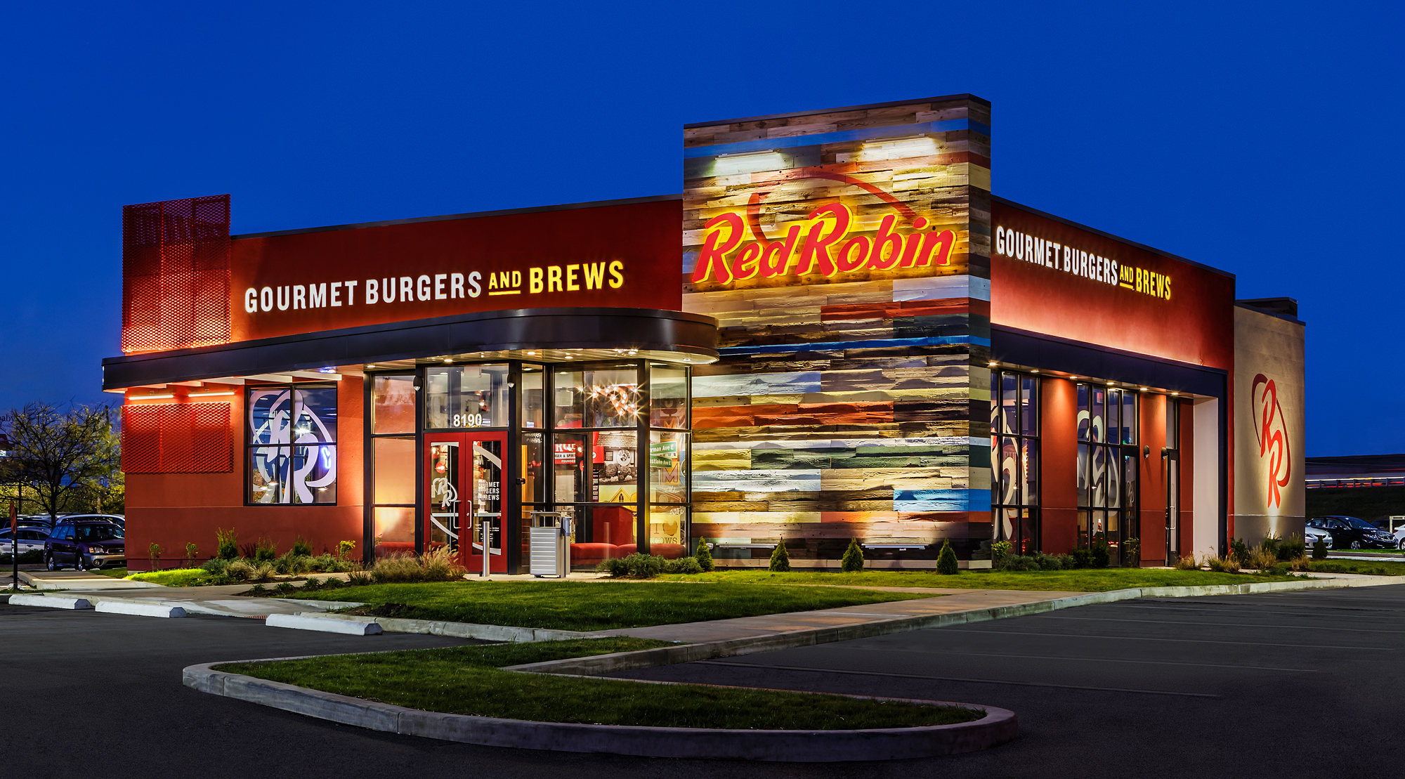 Red Robin Restaurant Exterior 2015